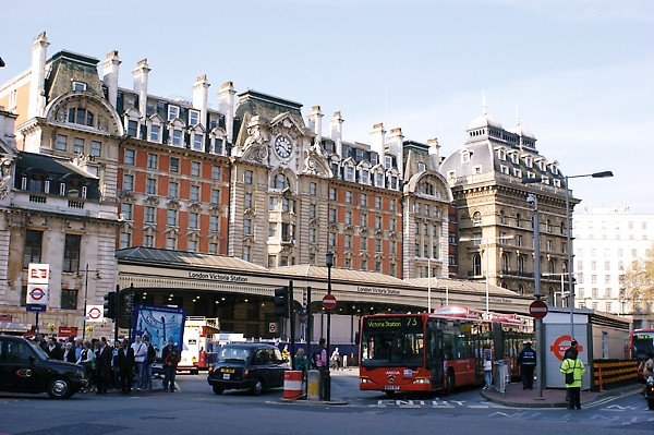 The former L.B.S.C.R. part of Victoria Station, 04/10.